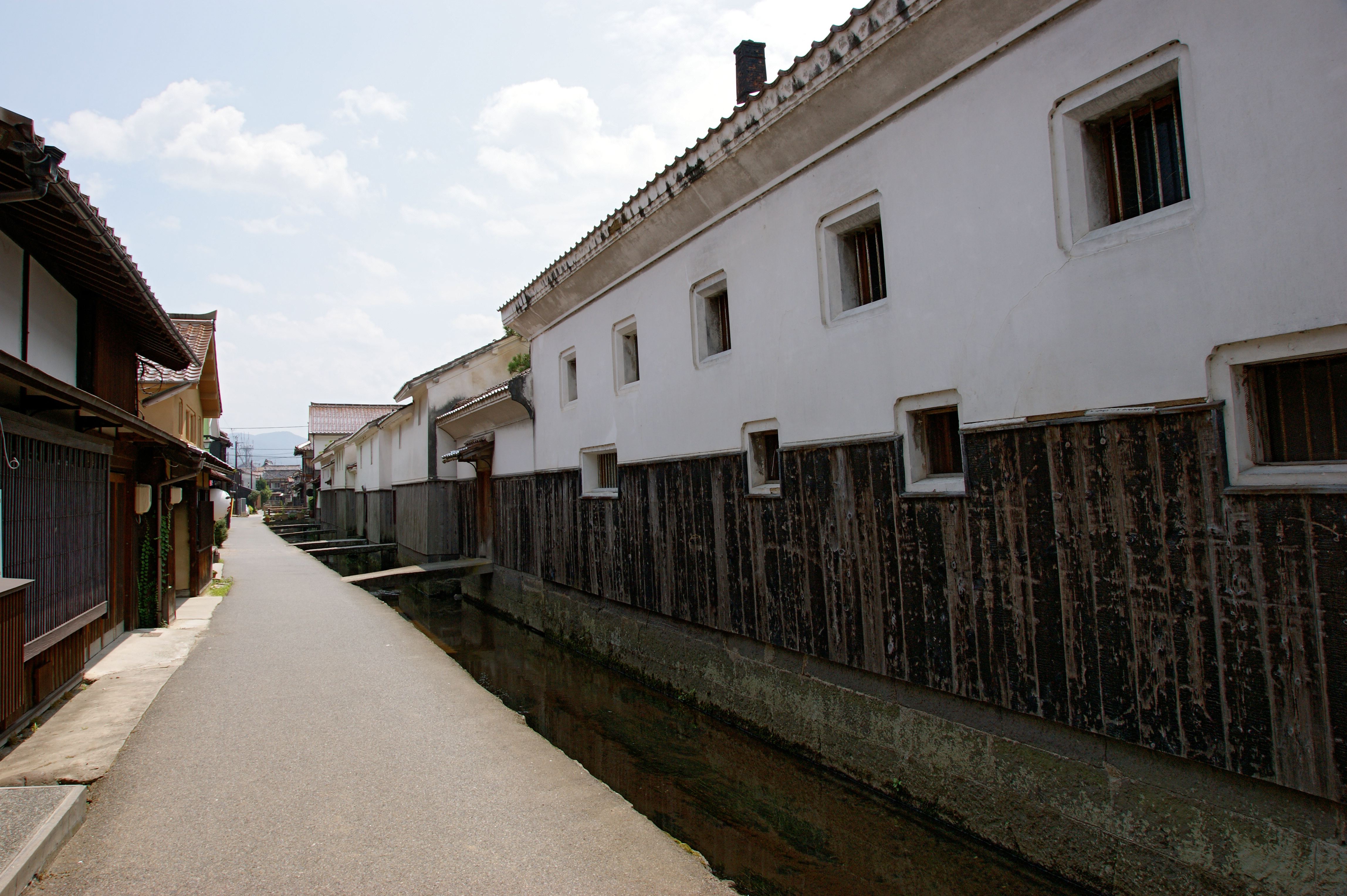 Utsubuki-tamagawa in Kurayoshi, Tottori prefecture, Japan